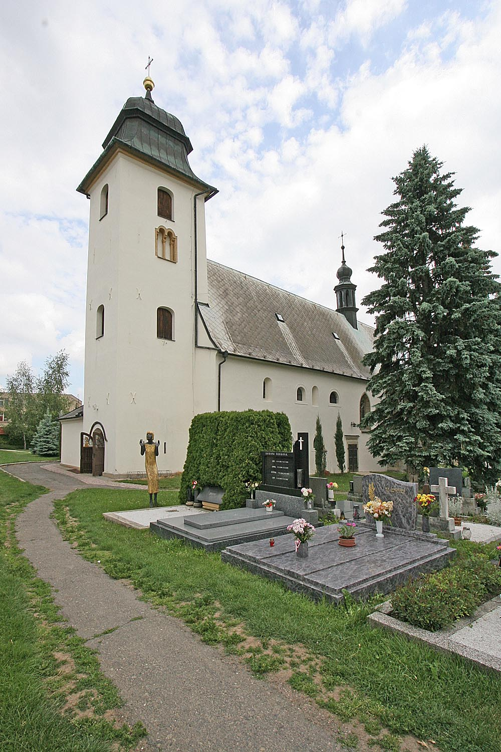 St Martin church in Dolní Újezd, Svitavy District, Czech Republic.